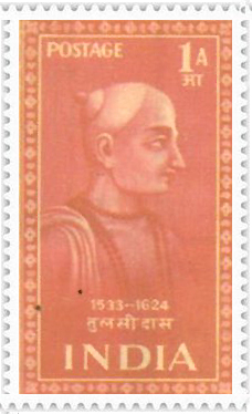 Stamp by India post on Gosvami Tulsidas